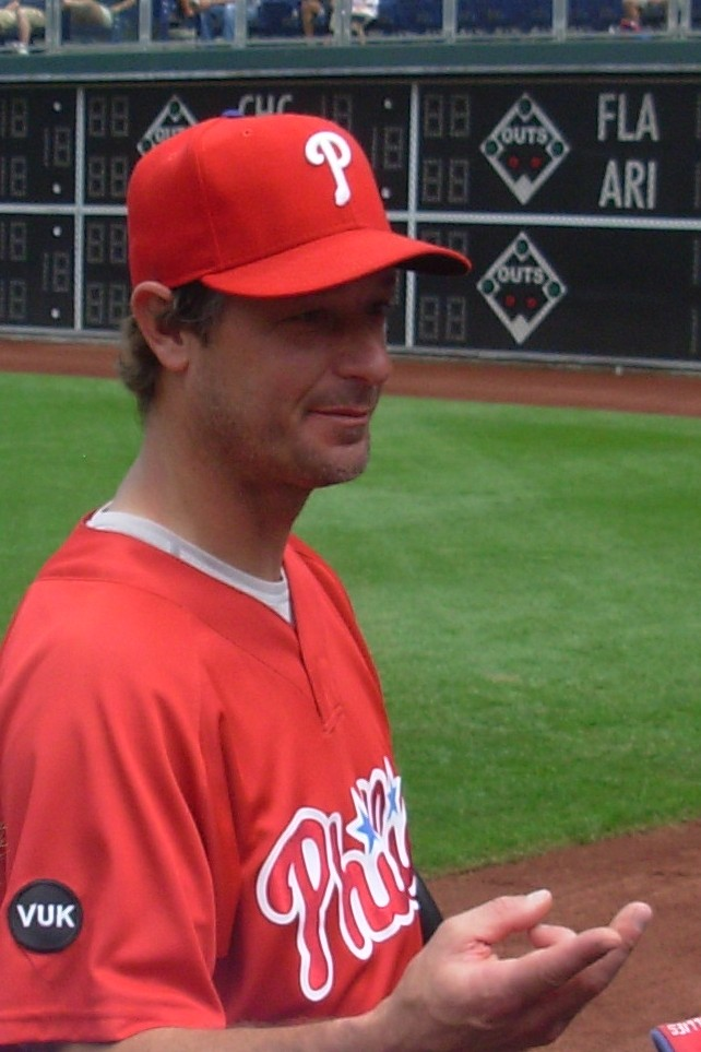 Picture of Jamie Moyer taken on Thursday, July 26, 2007, at Citizens Bank Park in Philadelphia, Pennsylvania. 02:16, 7 August 2007 . . Beno1983 . . 642×963 (121 KB)